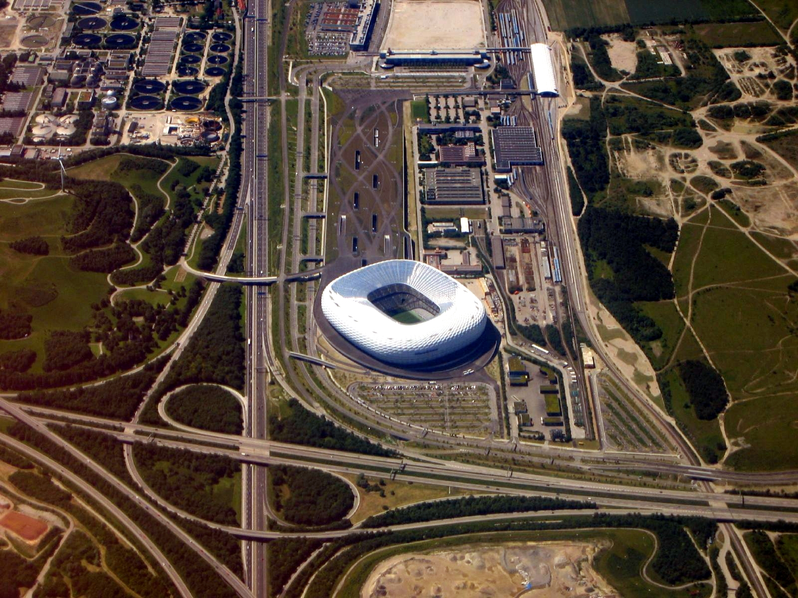 aerial view of the Allianz Arena in Munich with the the junction München-Nord (A 9 and A 99)